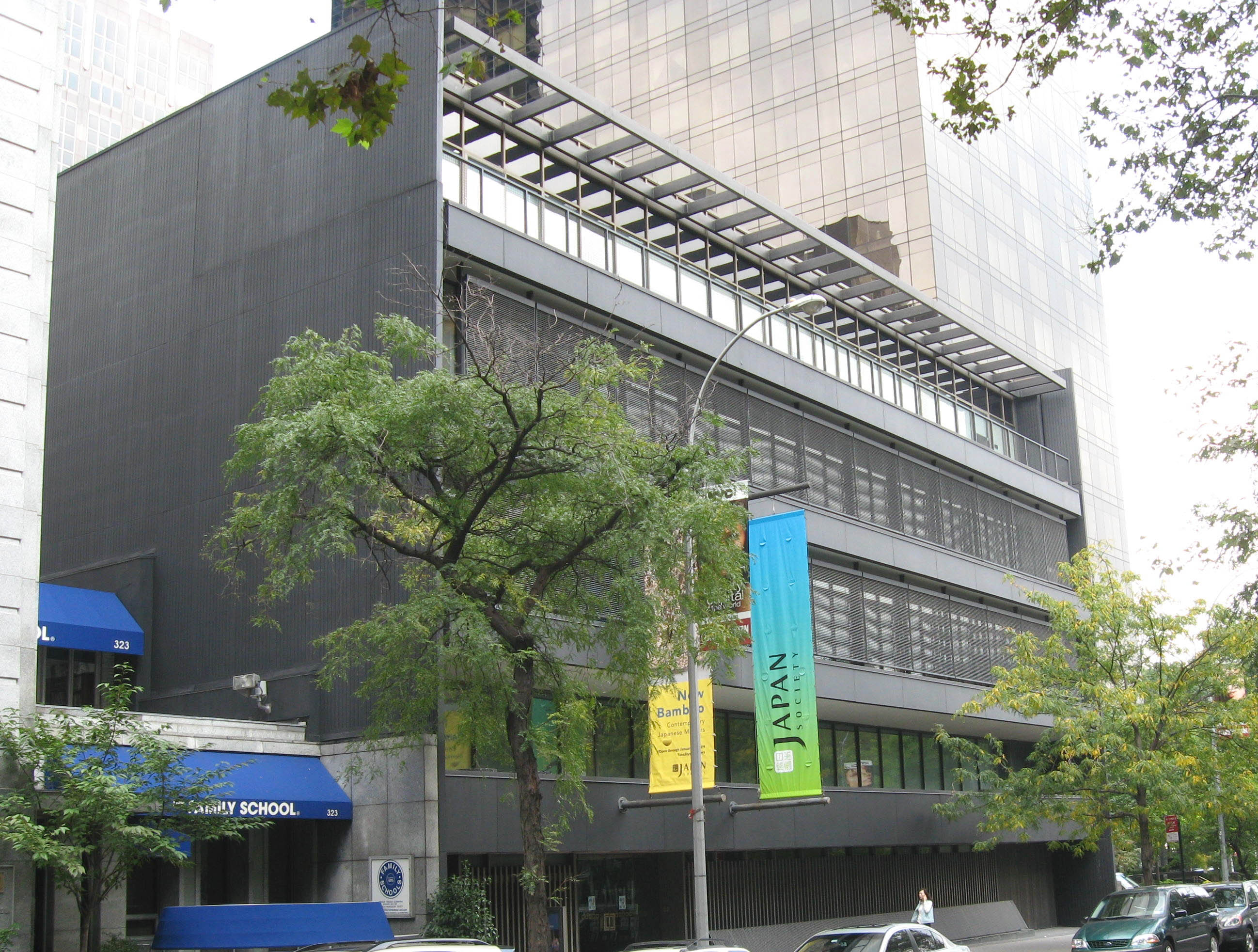 Looking east from Hammarskjold Plaza, across 47th Street at Japan Society (New York), 333 East 47th St. ZIP 10017.